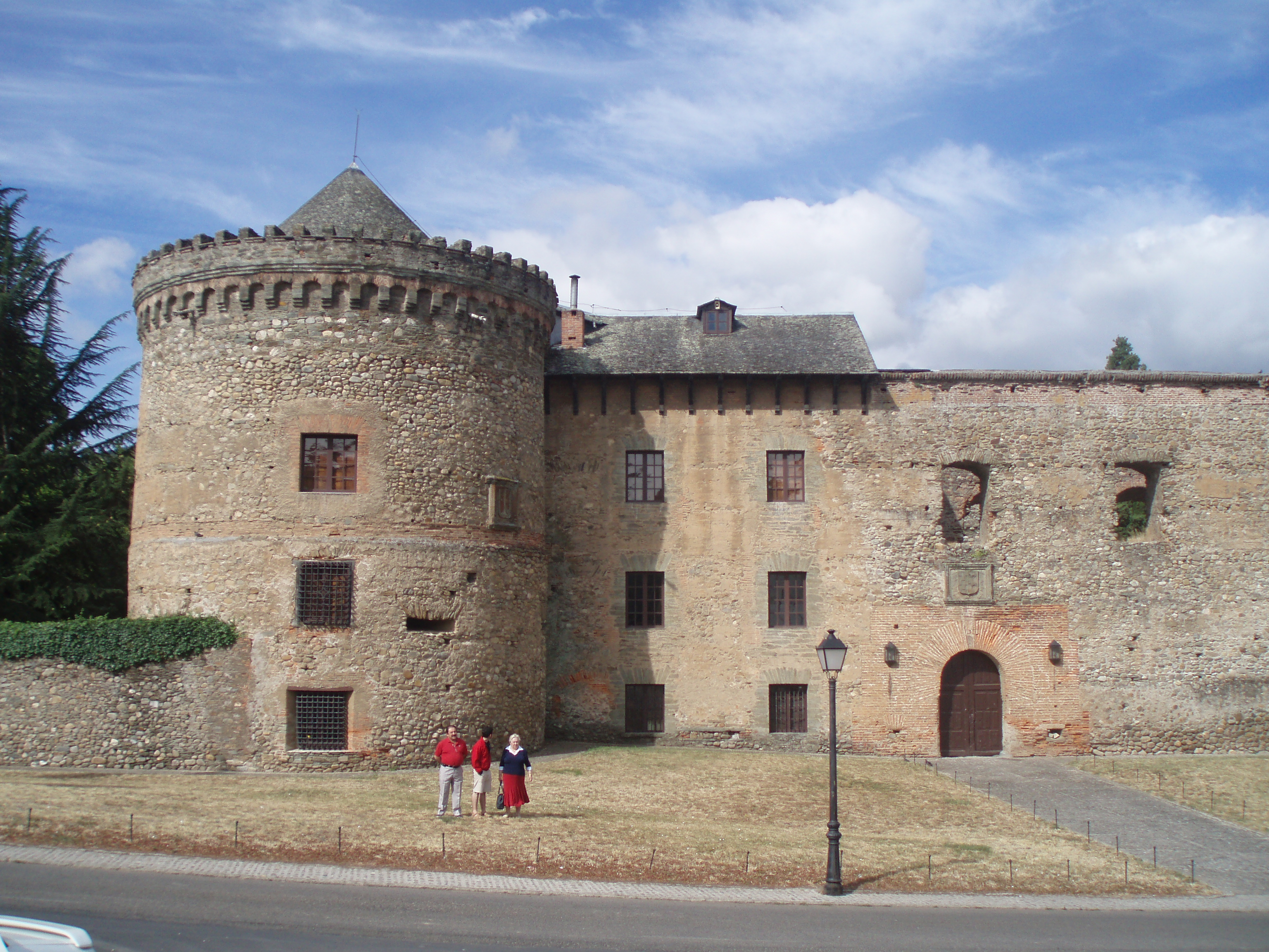 Castle of Villafranca del Bierzo, in Leon. (Spain).